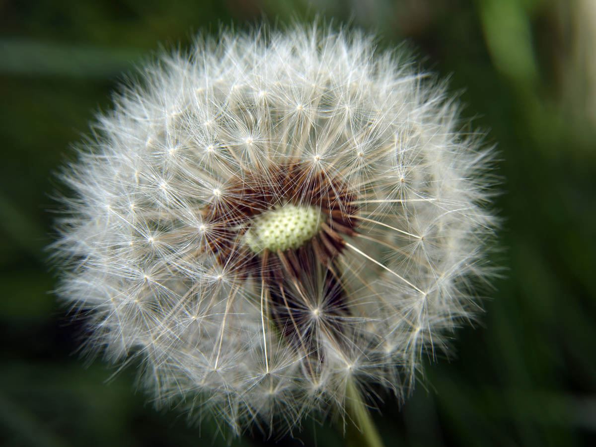 Dandelion